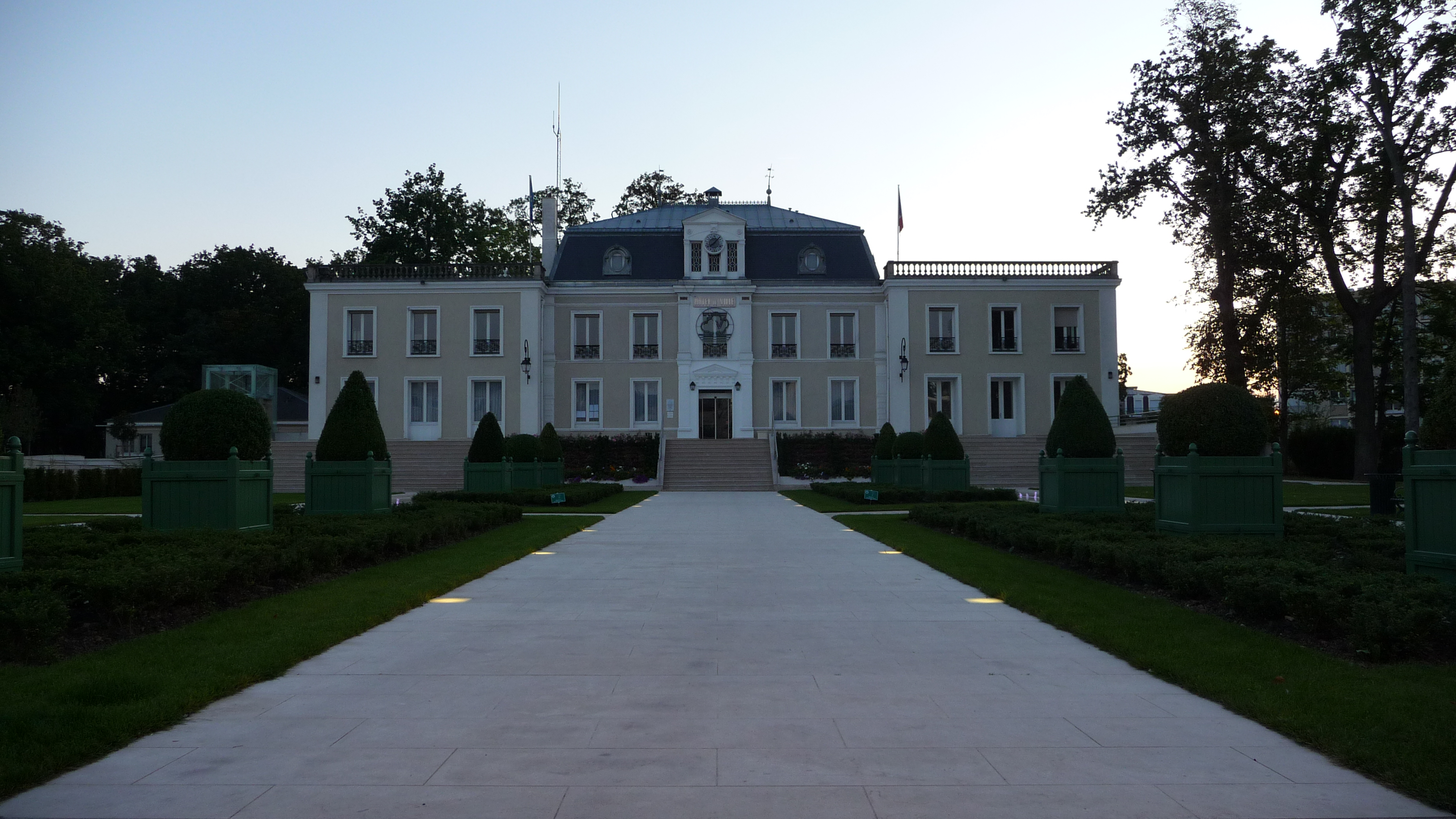 City Hall of Le Plessis-Trévise, France.